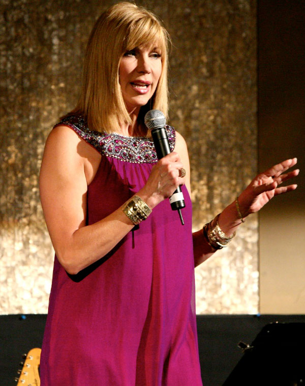 Leeza Gibbons hosting a benefit concert for her non-profit, the Leeza Gibbons Memory Foundation.